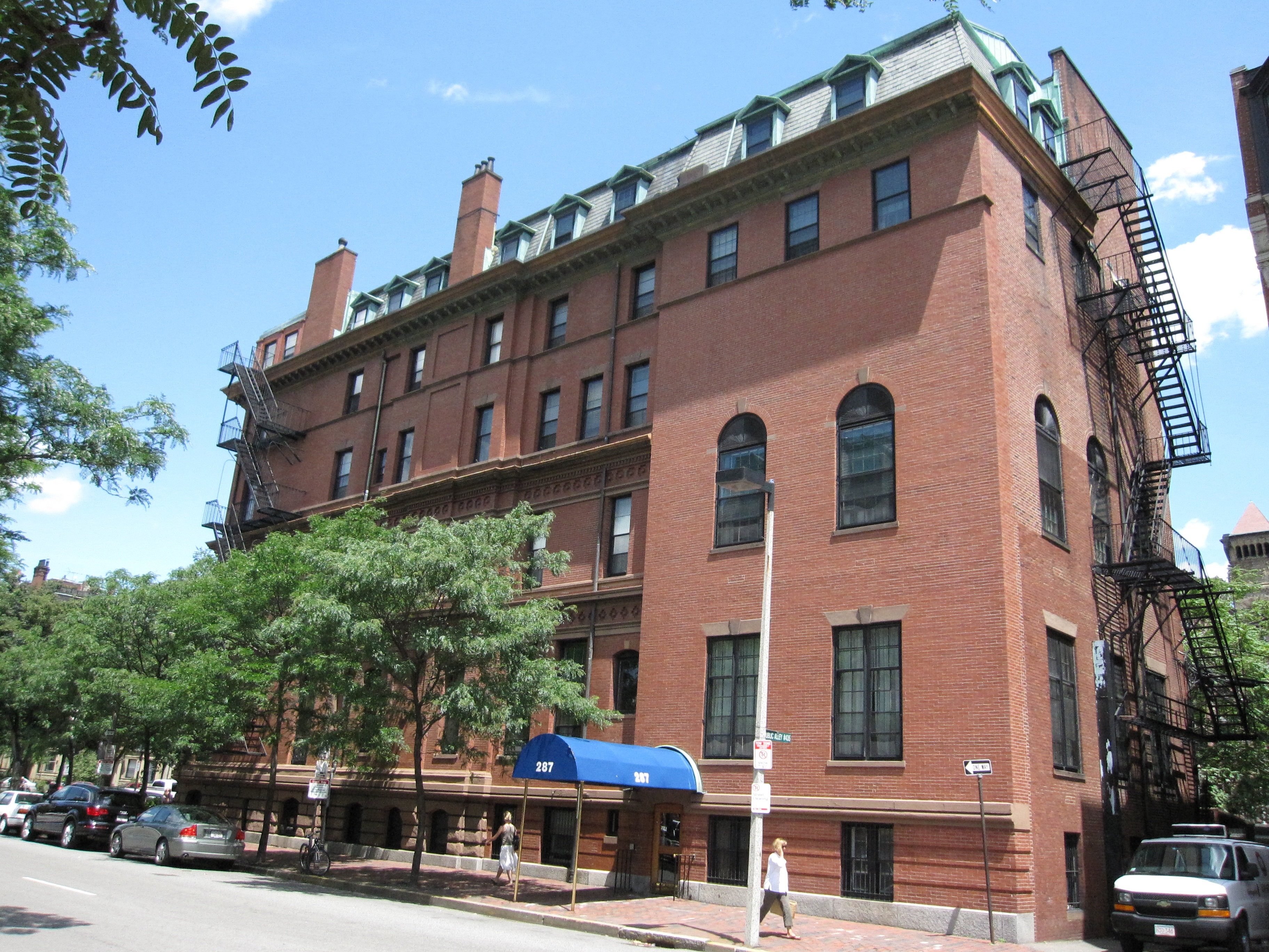 287 Dartmouth St., Boston MA. Designed by Henry Richards, 1870.